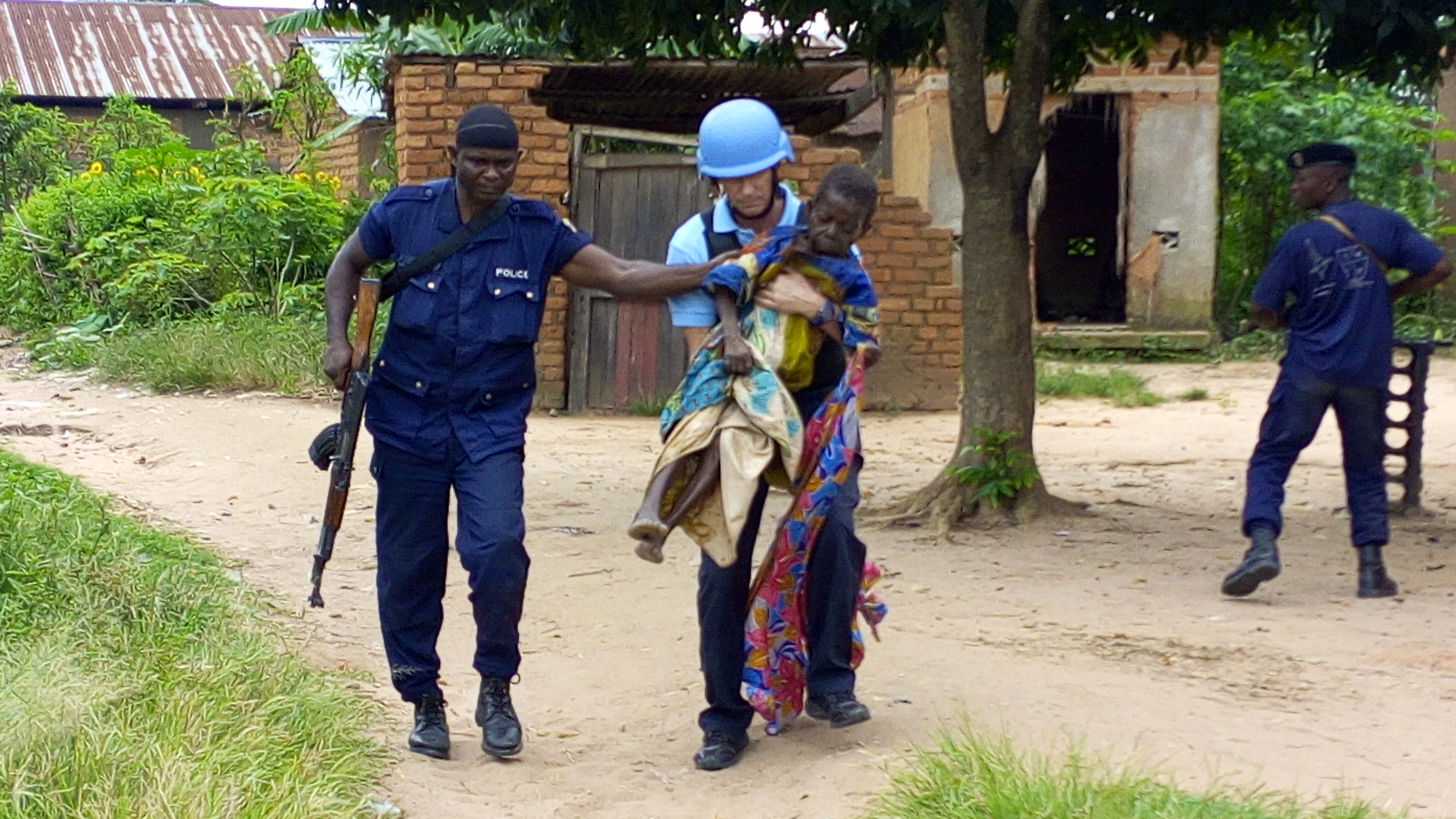 Kananga, Central Kasai, DR Congo: UNPOL and PNC evacuate an old woman who was stabbed by a machete during the attack on the city of Kananga, to the General Hospital in Kananga on Tuesday 14 March 2017. Photo MONUSCO/UNPOL